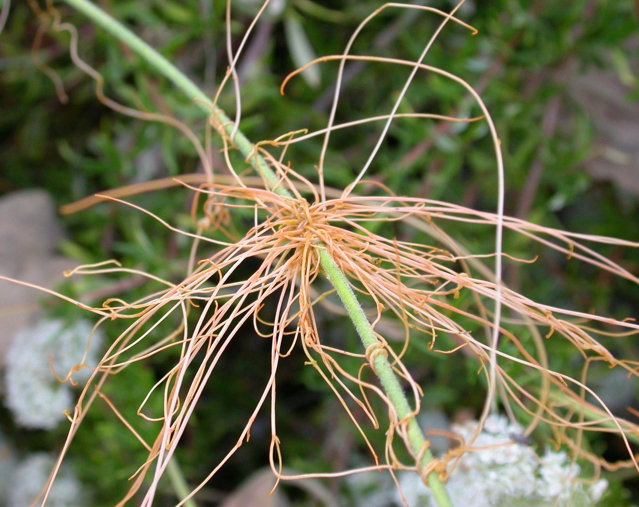 Photographed at BioTrek. Contributed and © by Curtis Clark. Licensed as noted.